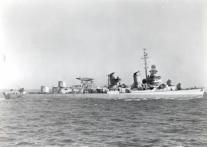 The U.S. Navy destroyer USS Pringle (DD-477) underway sometime in December 1942, location unknown. Note that she is fitted with a catapult, which replaced the after torpedo tubes and No. 3 gun turret. Note also that the forward turrets have their top hatches open.